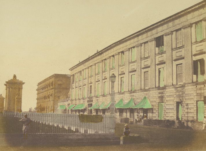 "Spence's Hotel, Calcutta," hand-coloured photographic print, by Frederick Fiebig. Dated 1851. Courtesy of the British Library, London.